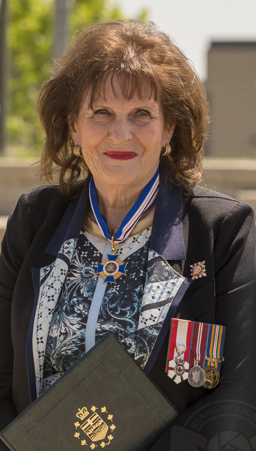 Colonel Michael Vernon assumed command of 41 Canadian Group (41 CBG) in a Change of Command ceremony in Calgary, Alta. on June 22, 2019 at The Military Museums in Calgary. The ceremonial guest of honour was Her Honour, the Honourable Lois Mitchell, C.M., A.O.E., L.L.D., Lieutenant-Governor of the Province of Alberta.